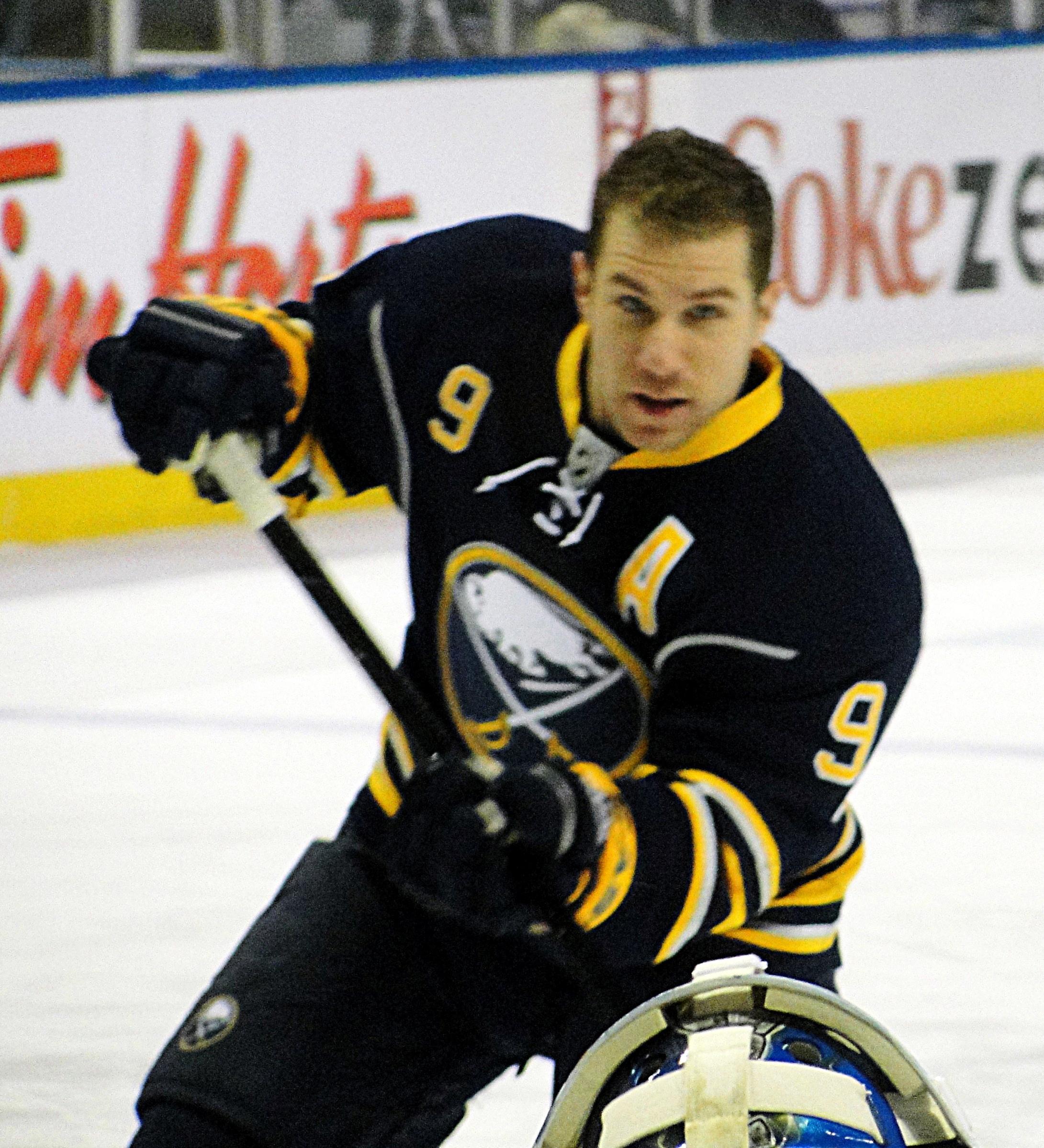 Buffalo Sabres forward Derek Roy warms up for a February 19, 2012 game against the Pittsburgh Penguins at First Niagara Center in Buffalo, NY.